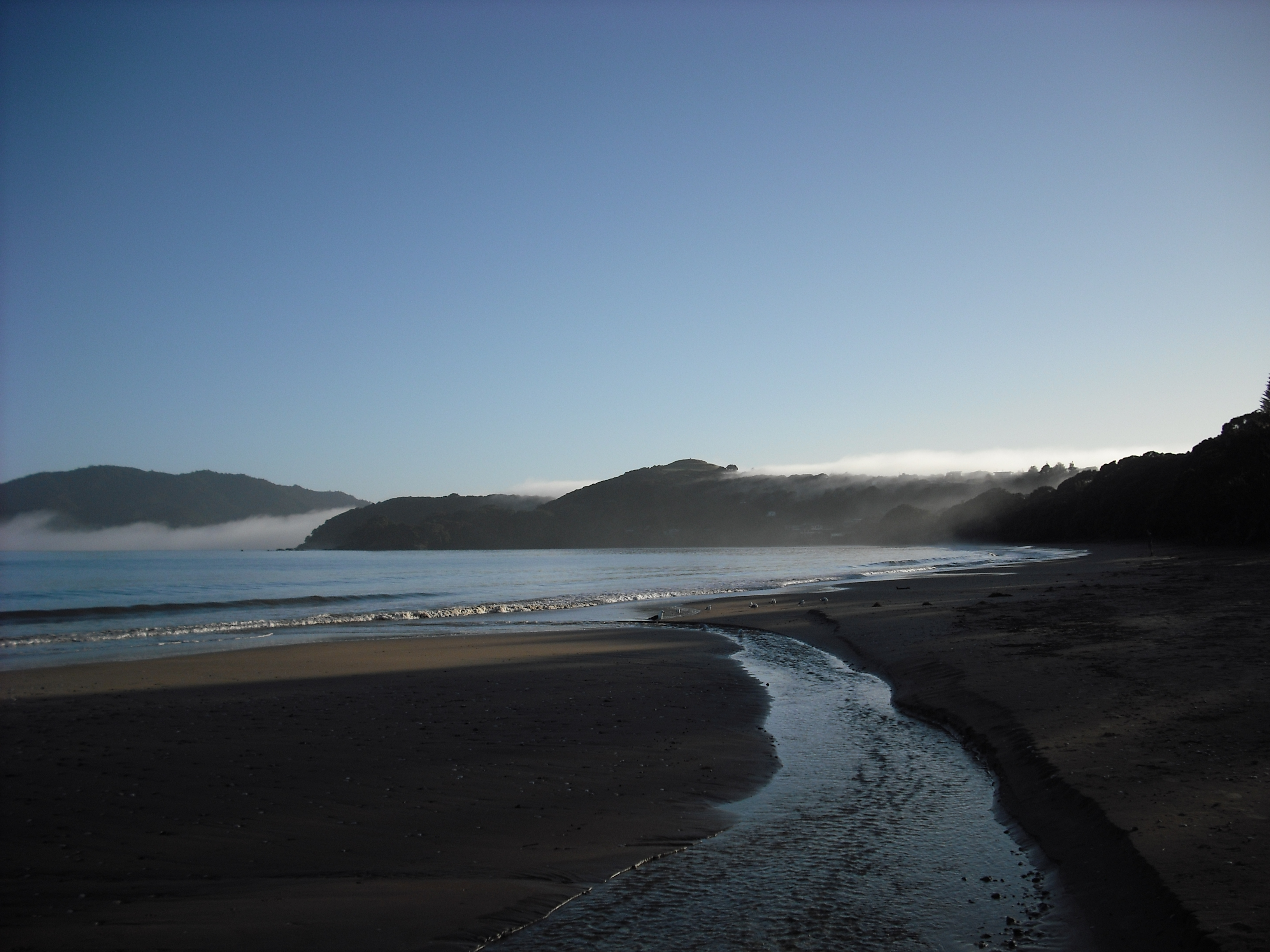 Coopers Beach looking to Rangikapati Pa, with morning fog rolling over the hills.